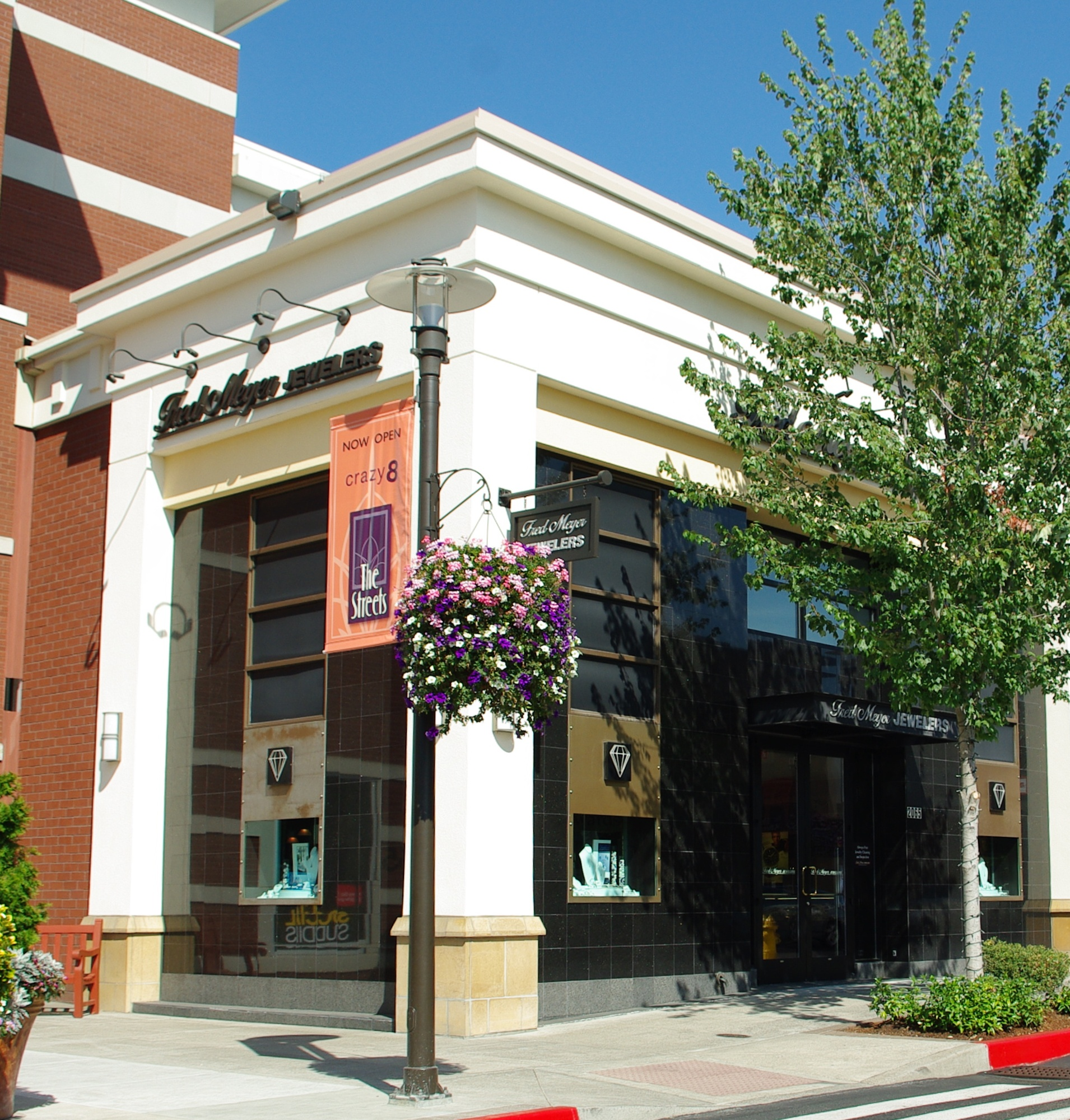 in the Tanasbourne area of Hillsboro, Oregon.